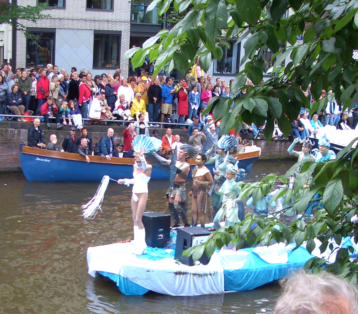 The Gay Pride Parade through the Amsterdam Canals. We didn't know it was happening when we got to Amsterdam, but it sure explains why we had such a hard time getting a room! We were told that it was much tamer this year on account of weather. You could have fooled me.